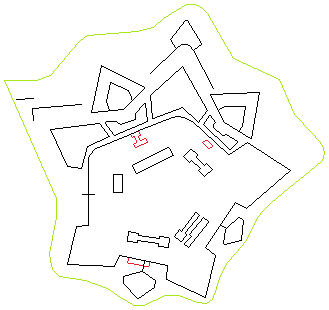 Citadel of Liege in 194...